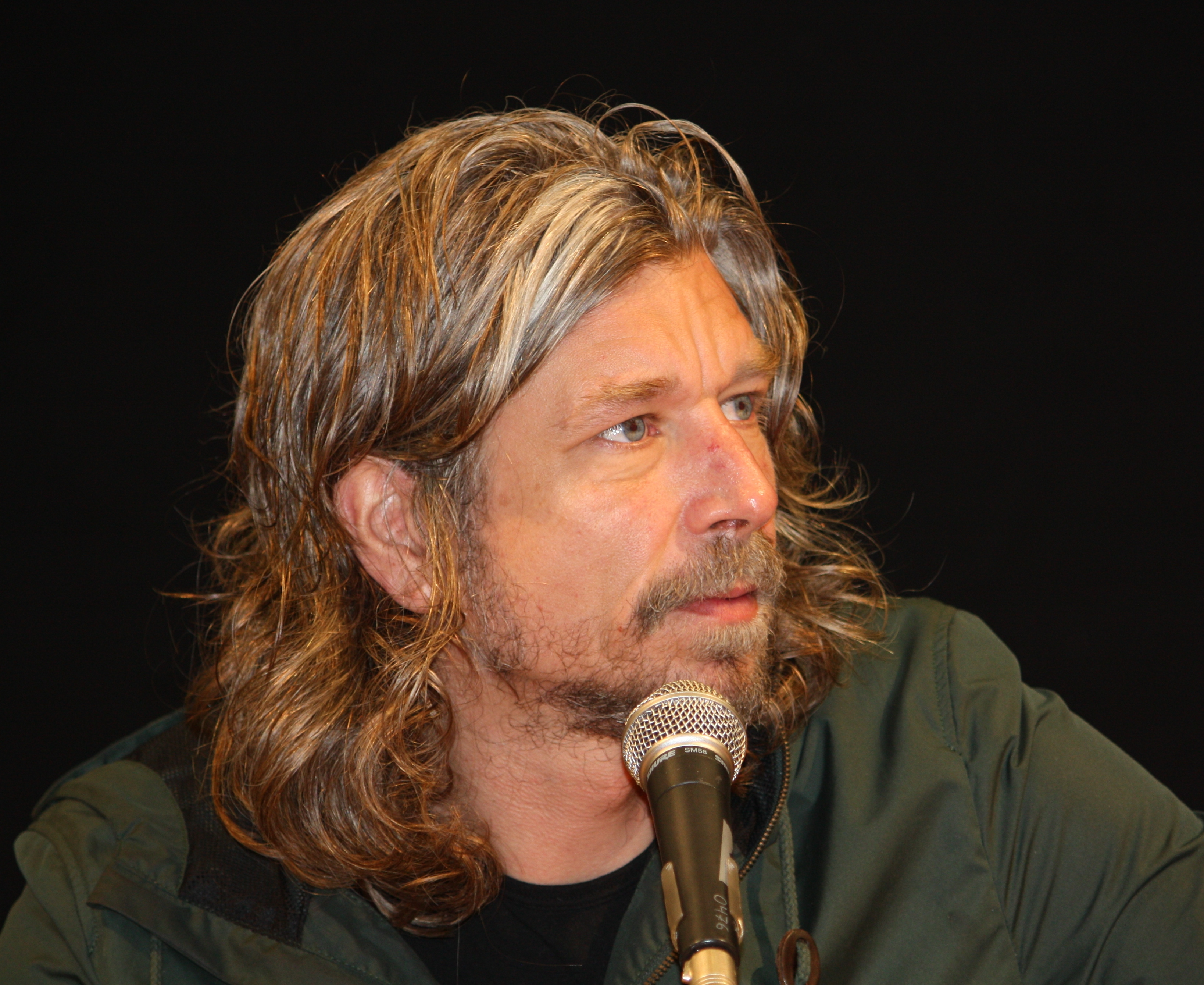 Norwegian writer Karl Ove Knausgård at Turku Book Fair, 2011.